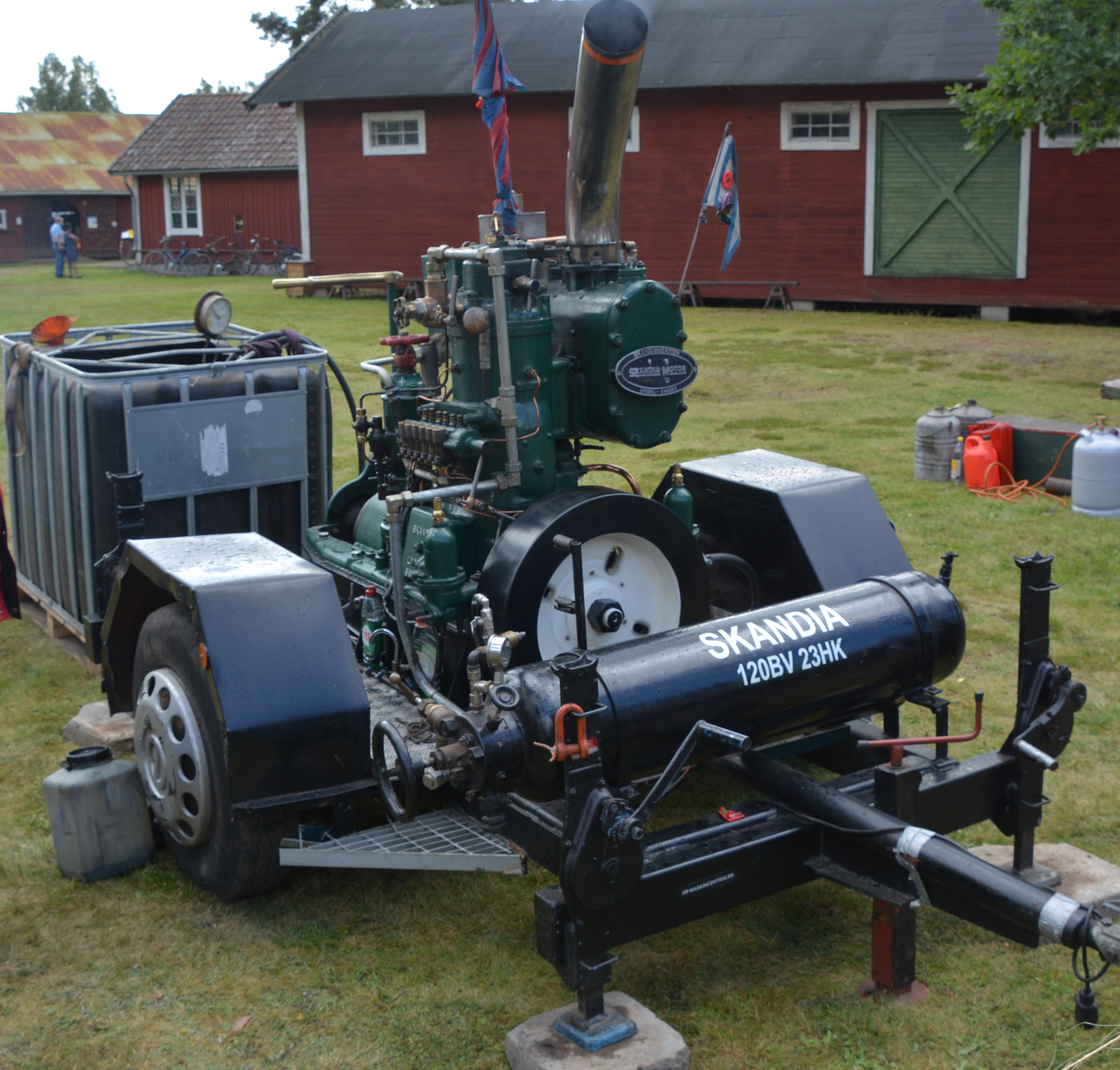 Skandia 120 bv dieselmotor på 23 hk vid 500 varv/minut, från 1944, som suttit i en timmerbogserare i Indalsälven. Visad på Motorns dag 2017 i Målilla